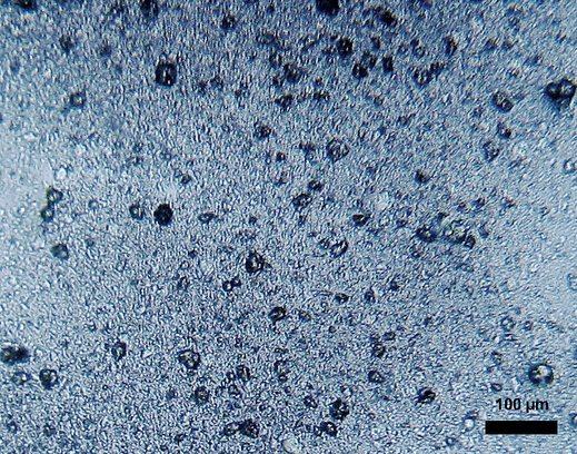 Microplastic sperules in tooth paste, about 30 µm in diameter.